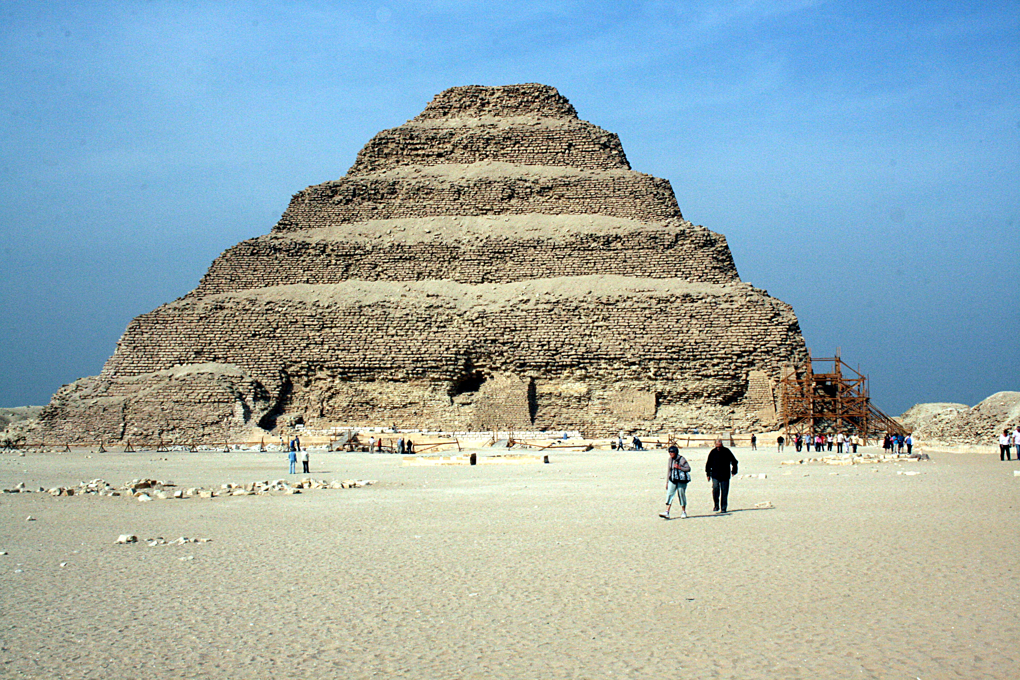 Pyramid of Djoser, view from South